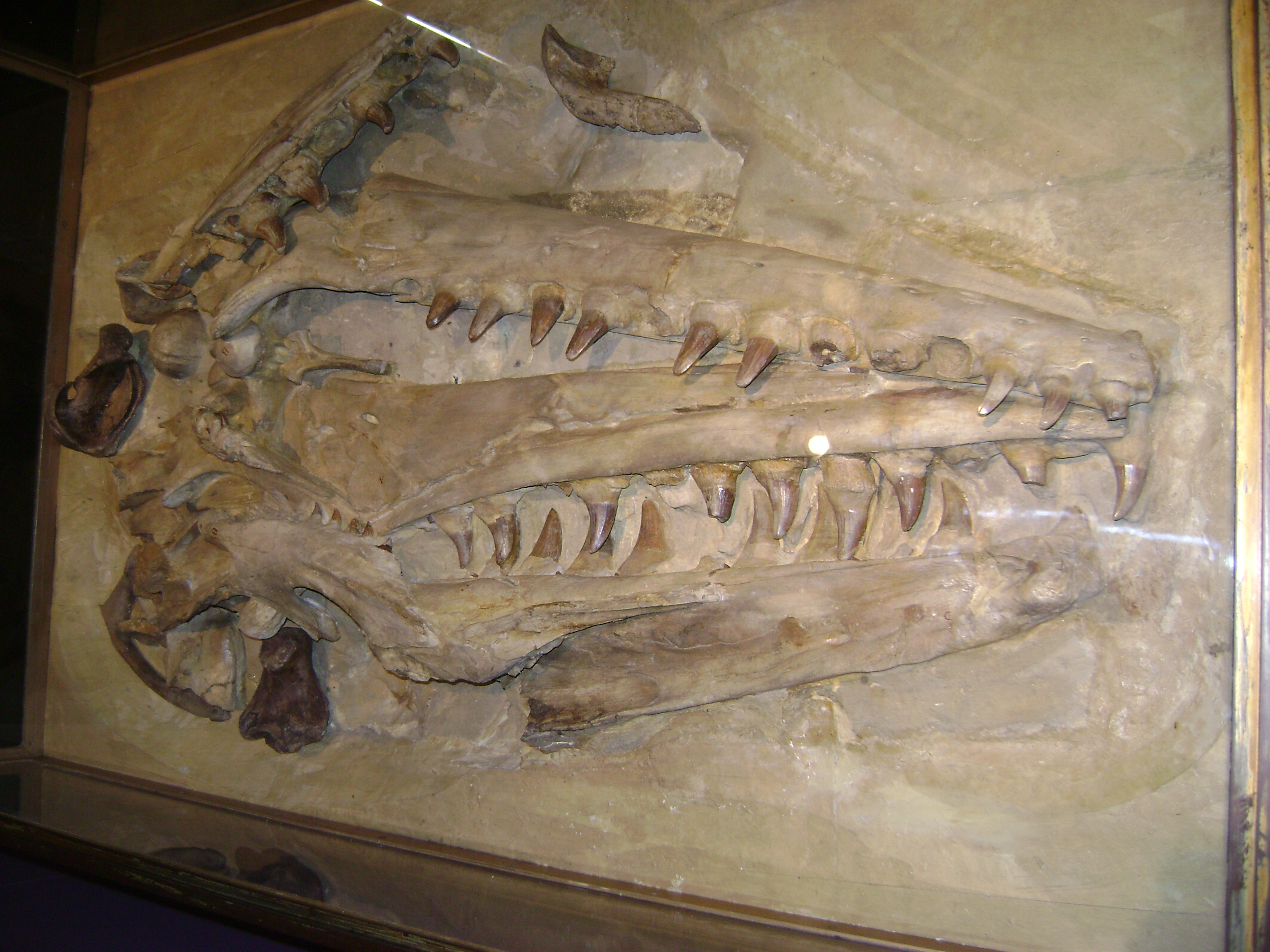 The skull of Mosasaurus hoffmannii as temporarily exhibited in Maastricht